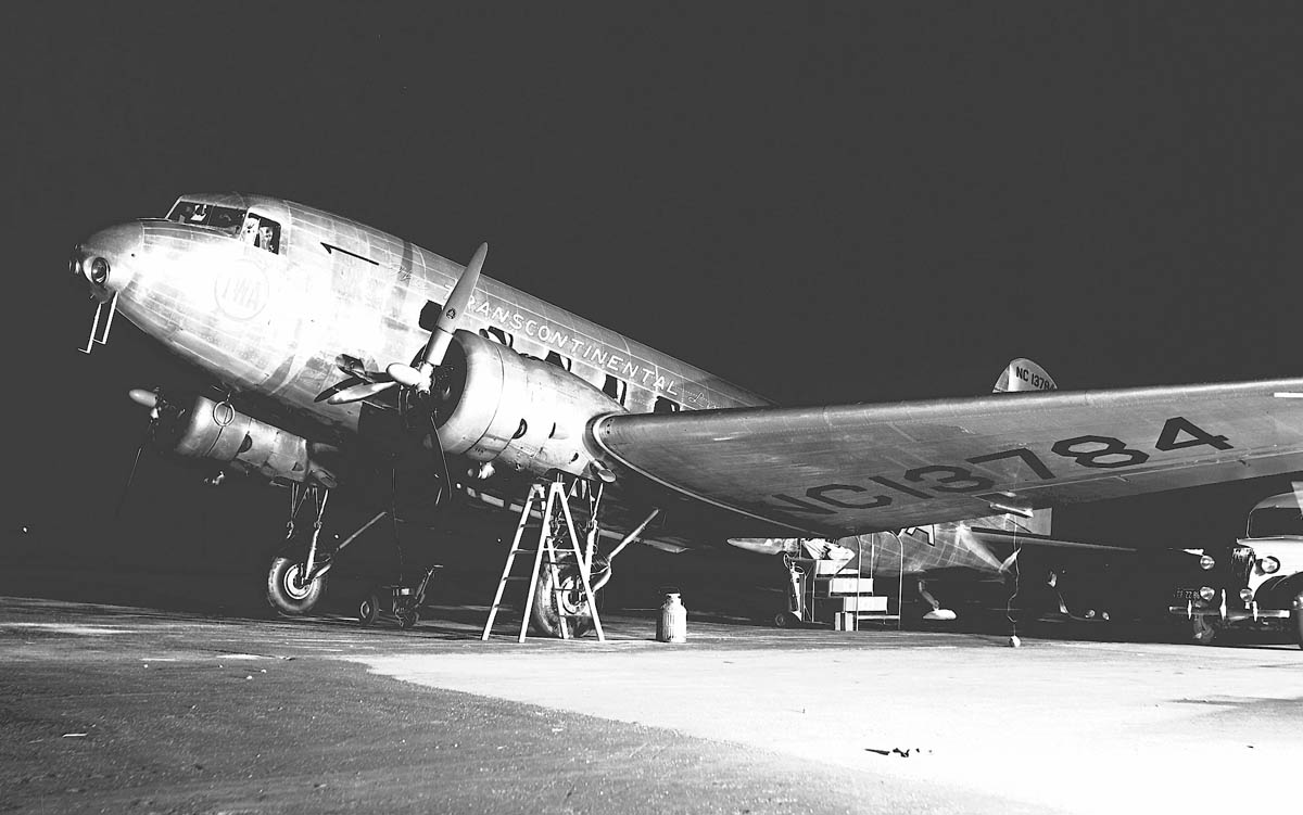 Douglas DC-2, NC13784, at Oakland in 1941. Time exposure.